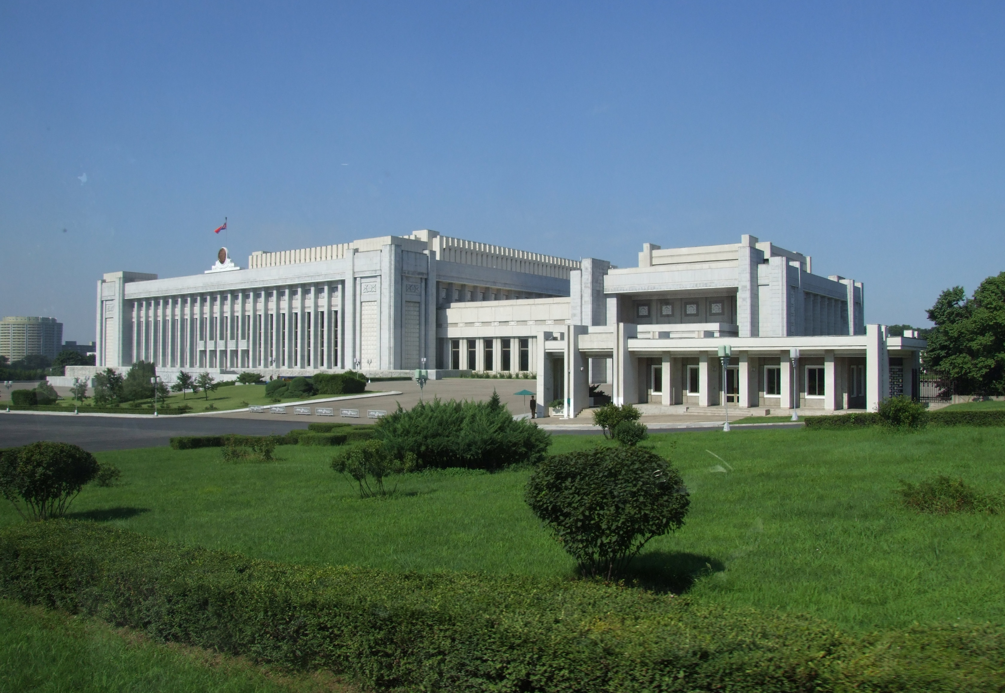 Mansudae Assembly Hall in Pyongyang, Parliament of North Korea